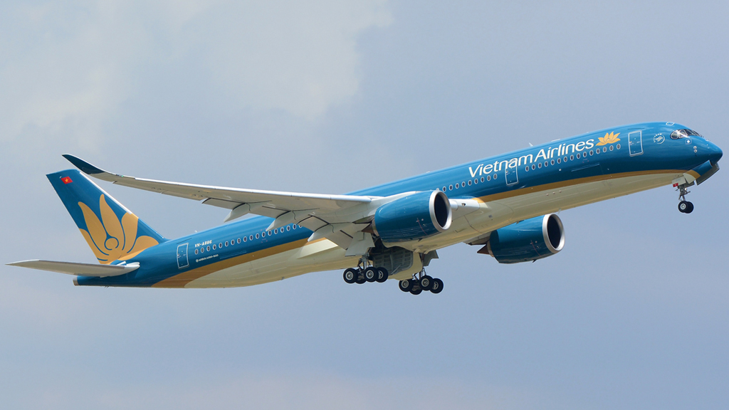 VNA's first A350